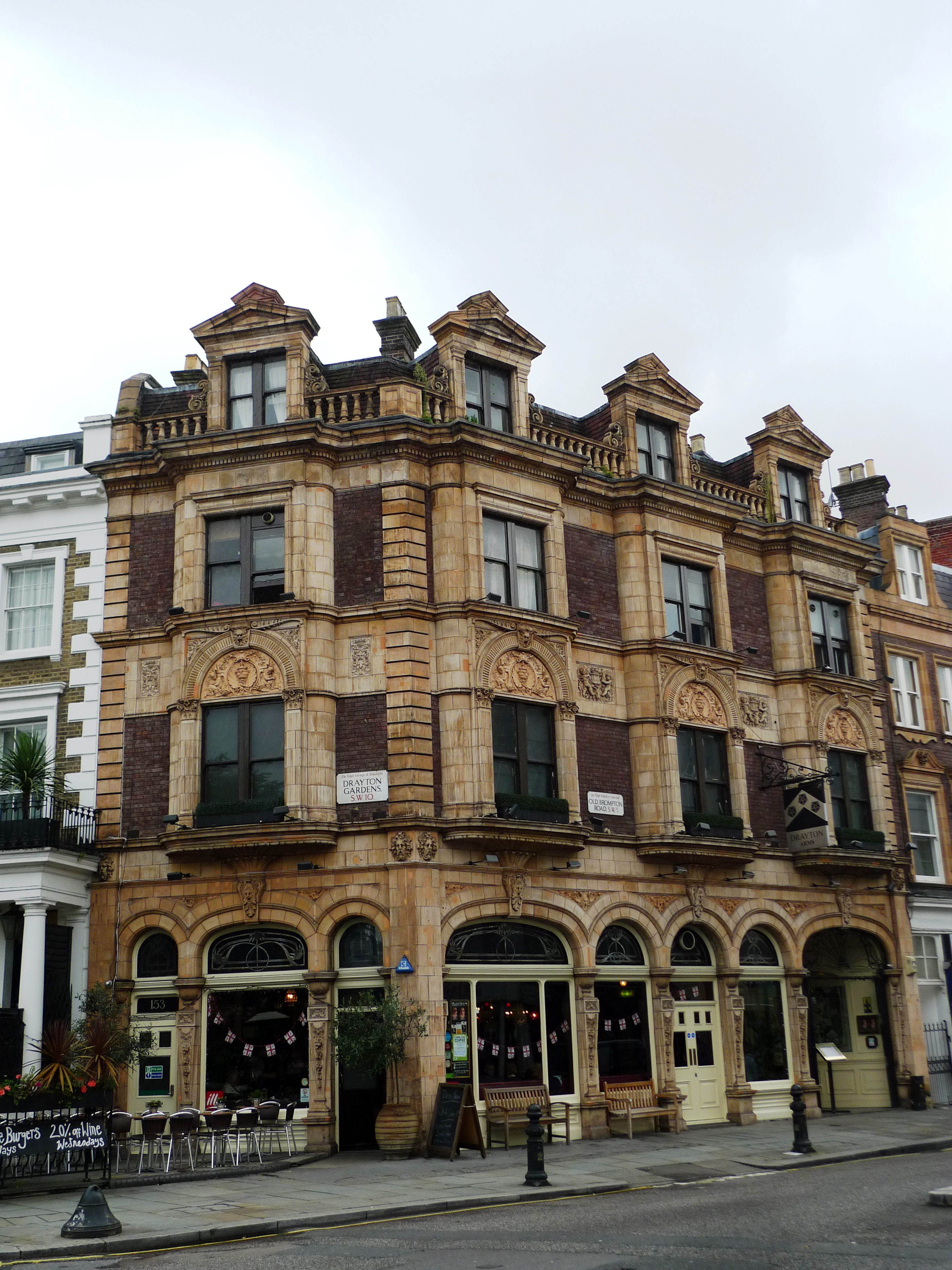 Ornate looking pub with a grand exterior. Address: 153 Old Brompton Road. Owner: Mitchells and Butlers [Castle] (website). Links: Fancyapint Pubs Galore Beer in the Evening Pubs History (history)